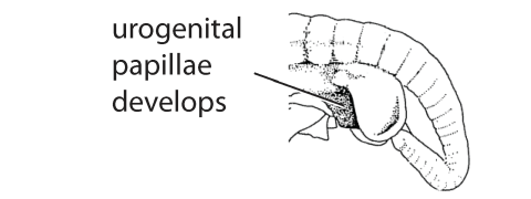 Standard Event System character depiction